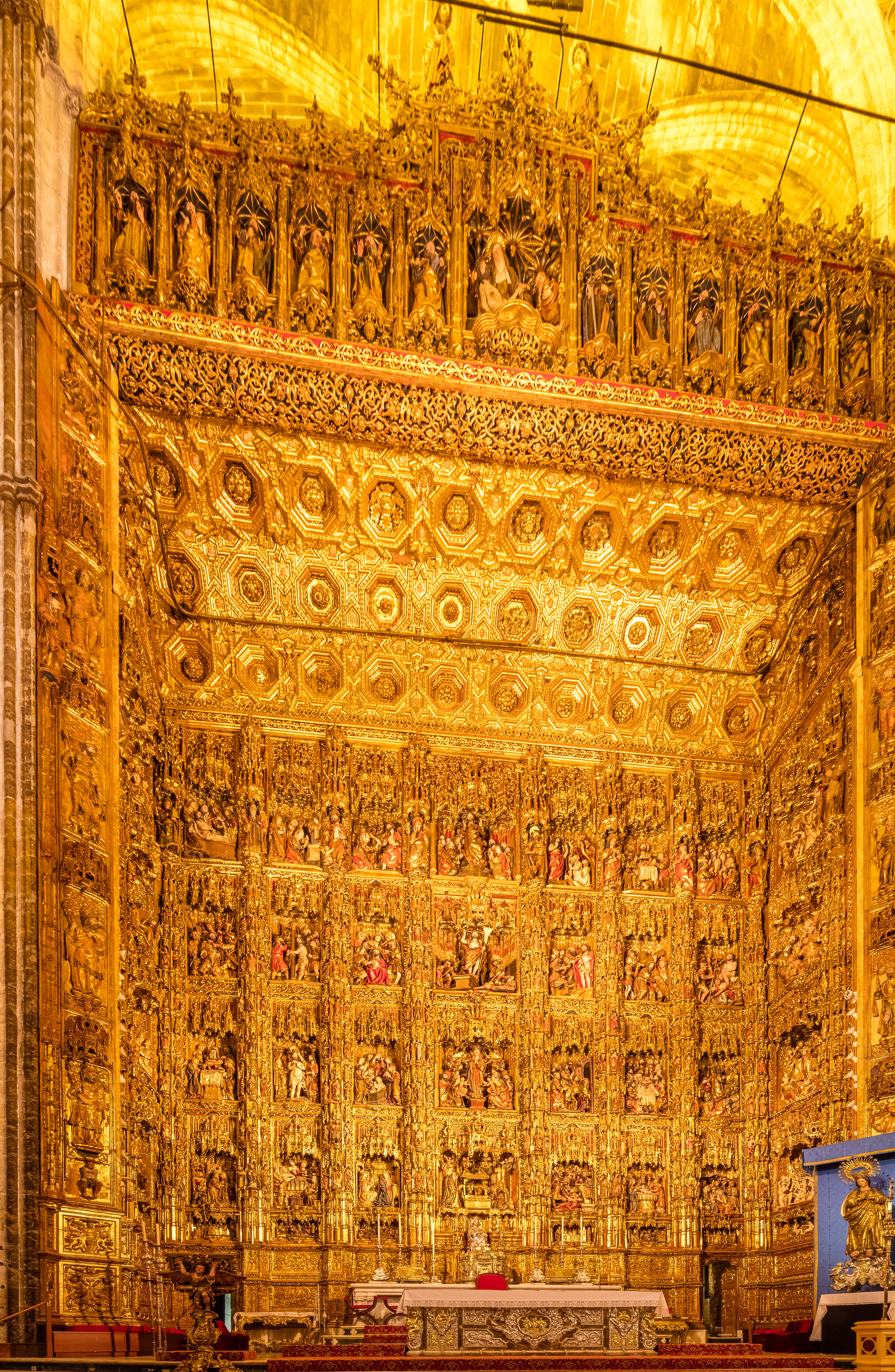 Main altar piece, Cathedral of Seville, Seville, Spain